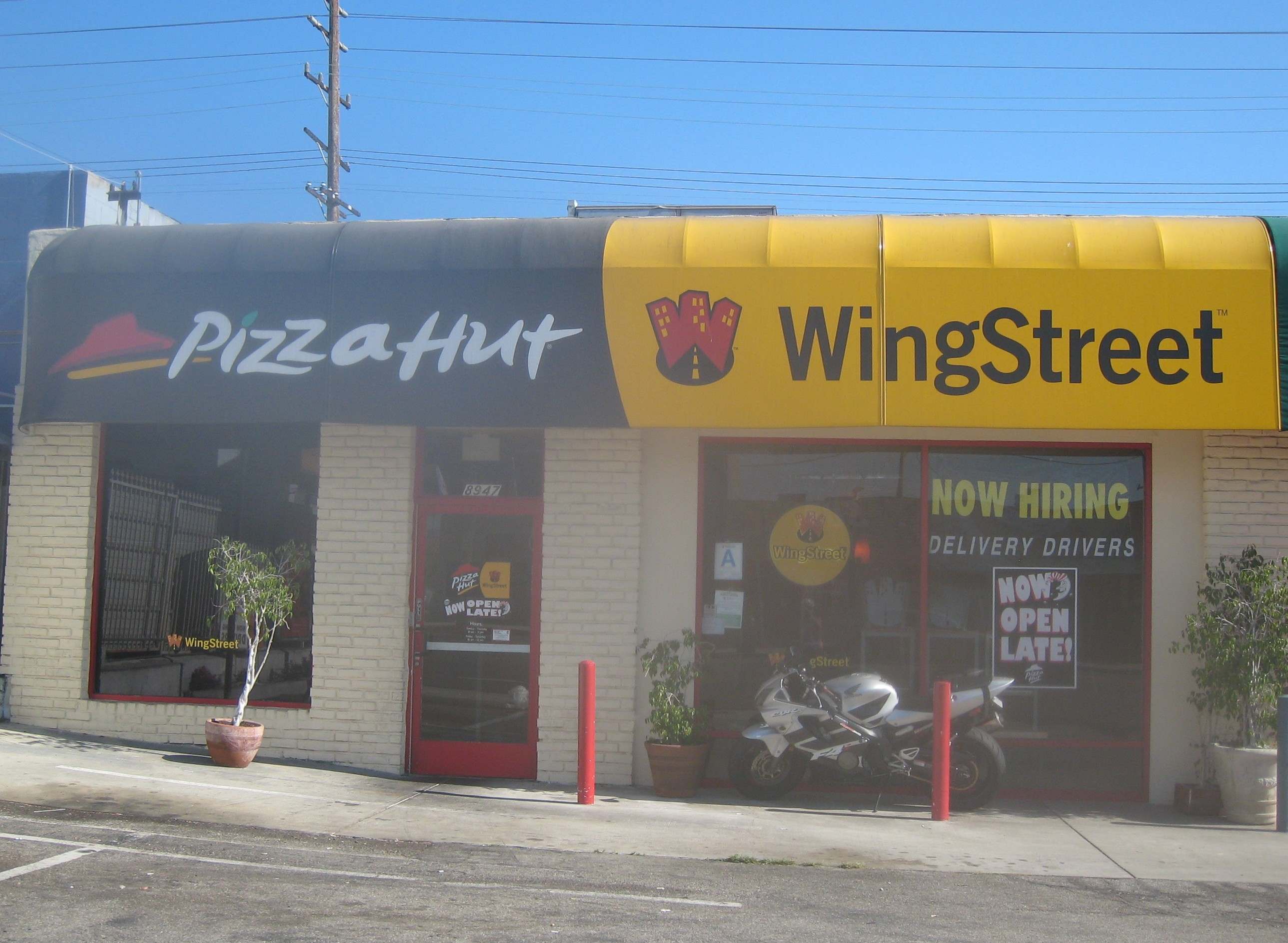 Wing Street and Pizza Hut restaurants on Pico Boulevard in Los Angeles, California